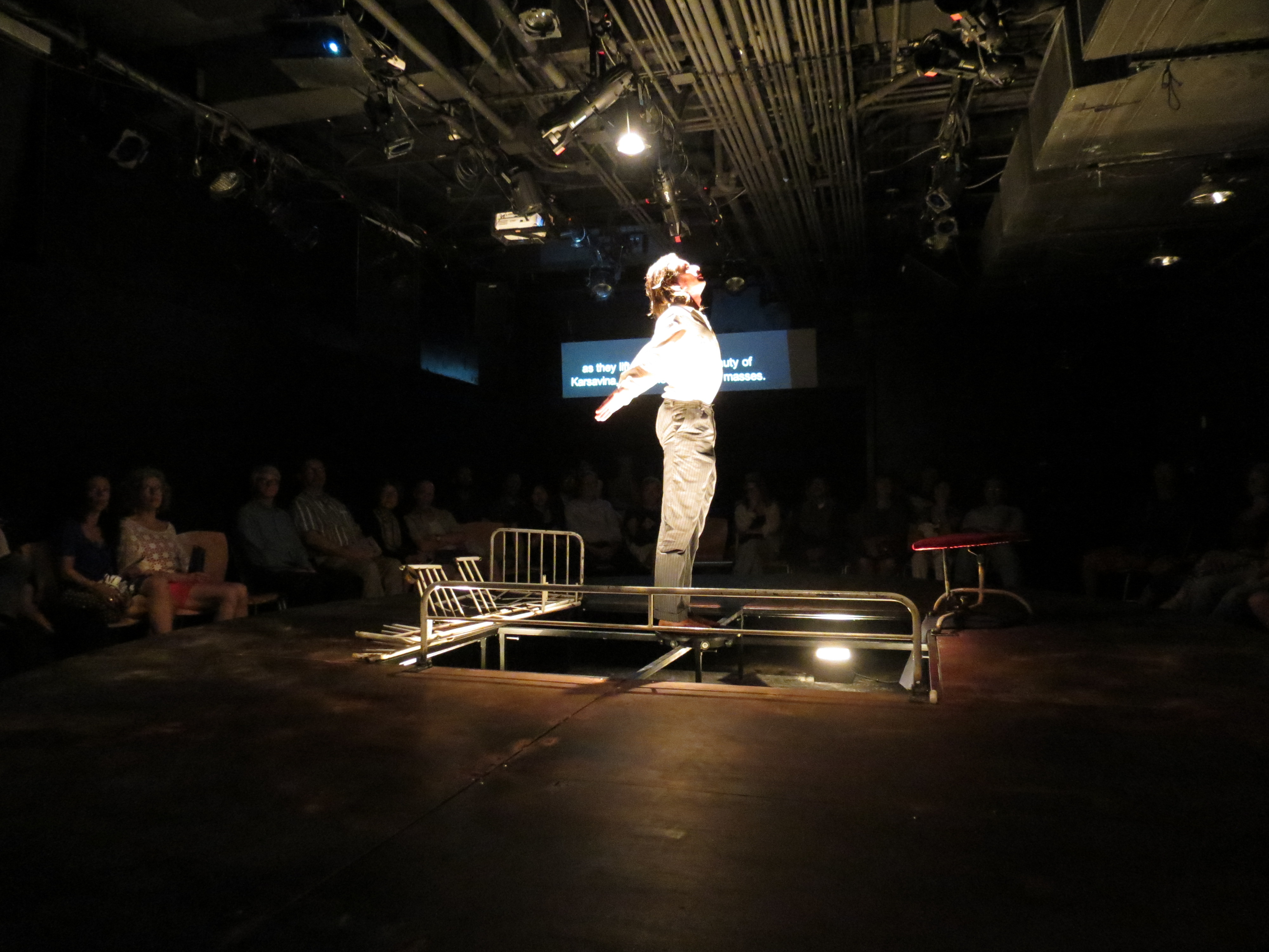 Nijinski Last Dance Primoz Bezjak